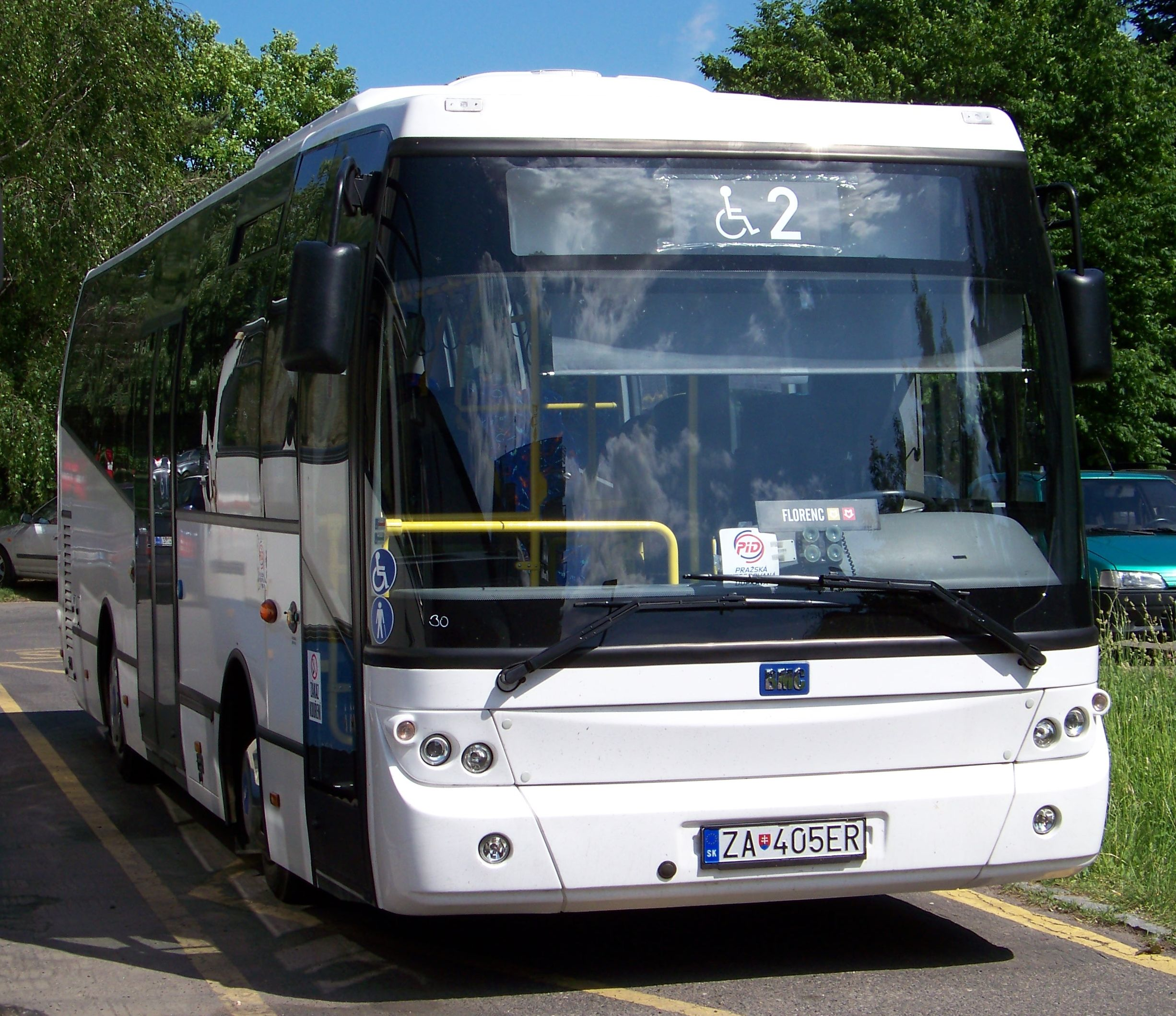 Prague-Záběhlice-Zahradní Město. A bus BMC Hawk operated by About Me company.